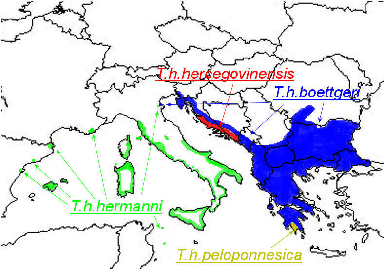 Areale Testudo hermanni